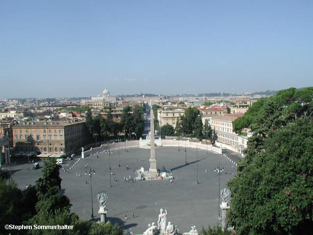 The view from the Pincian Hill overlooking Piazza del Popolo toward St. Peter's